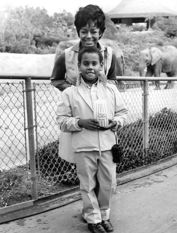 Photo of Gail Fisher as Peggy Fair and Mark Stewart as her son, Toby, from the television program Mannix.